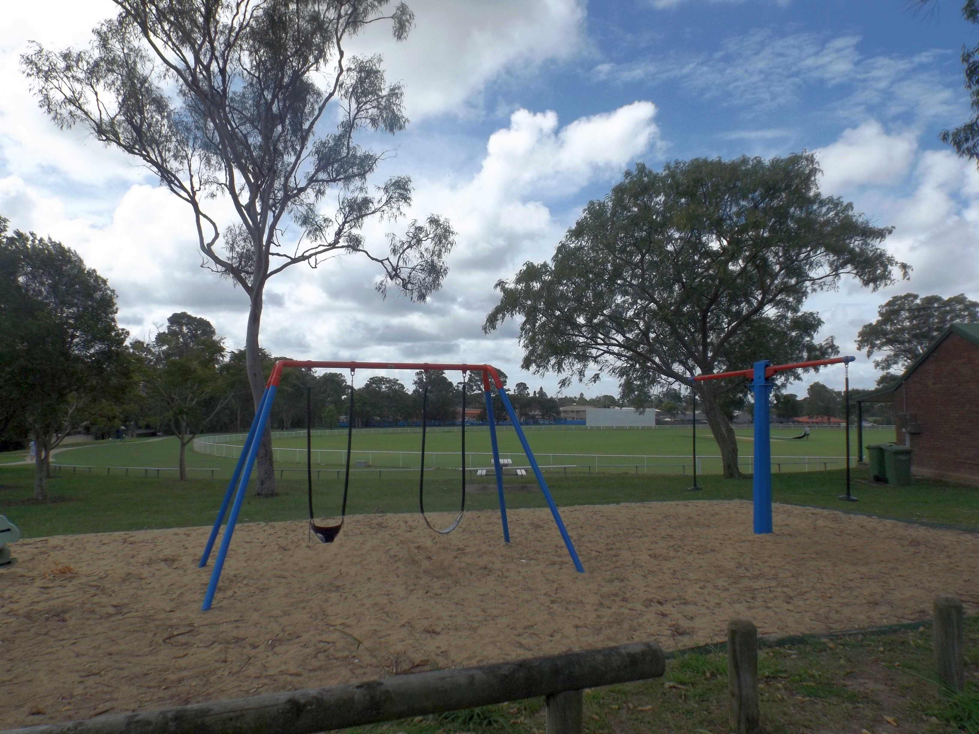 Photo of Beenleigh-Logan Cricket Ground and playground at Eagleby, Logan City, Queensland, Australia.